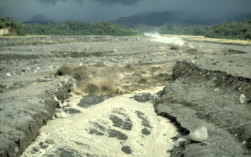 Hot lahar in the Nima II river, near El Palmar, Guatemala, 1989. From [1]